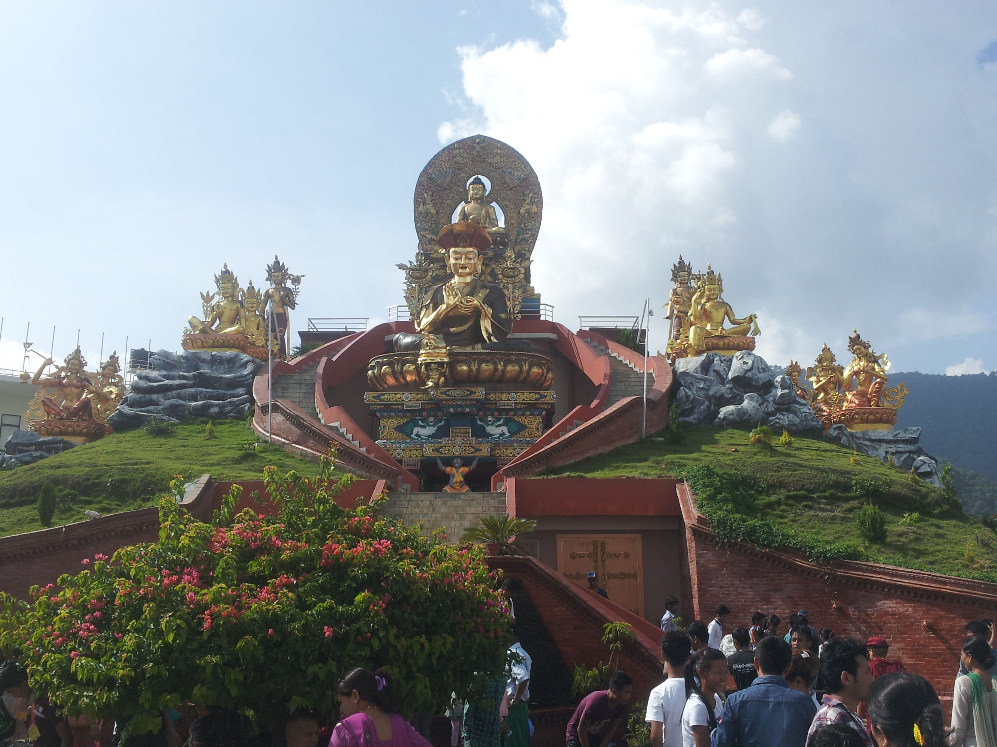 statues of Lord Buddha & other deities at the hilltop of Seto Gumba in Ramkot Kathmandu.